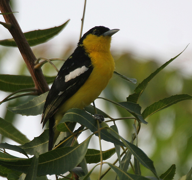 Common Iora Aegithina tiphia in Hyderabad, India.